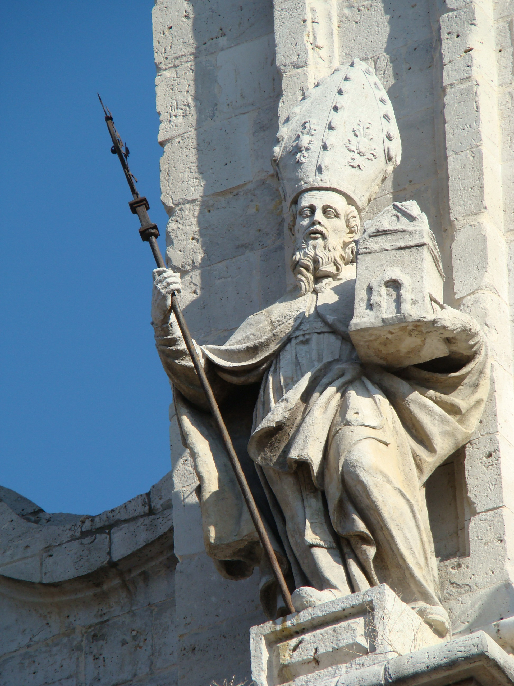 Valladolid. Facade of the cathedral with the four scholars of the latin Church, on the second body.